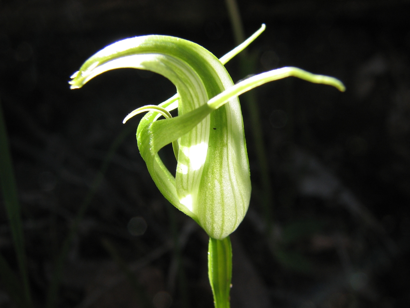 Pterostylis alpina, Riddells Creek, Victoria, Australia